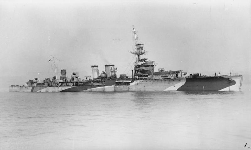 British light cruiser HMS DANAE underway. From October 1944 to September 1946 she served with the Polish Navy as ORP Conrad.